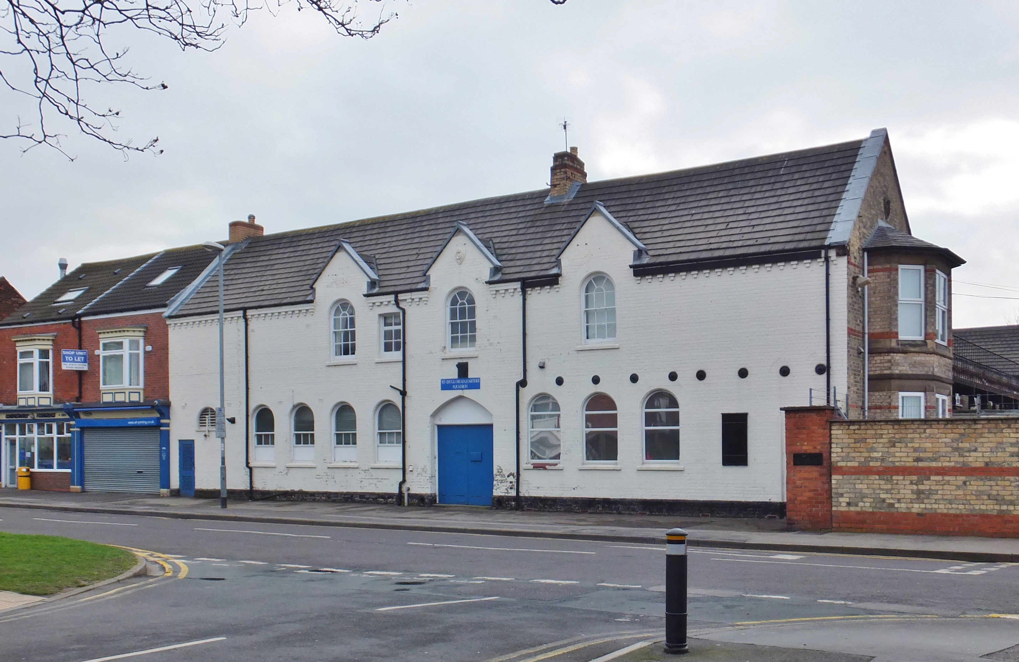 Londesborough Street drill hall, Kingston upon Hull